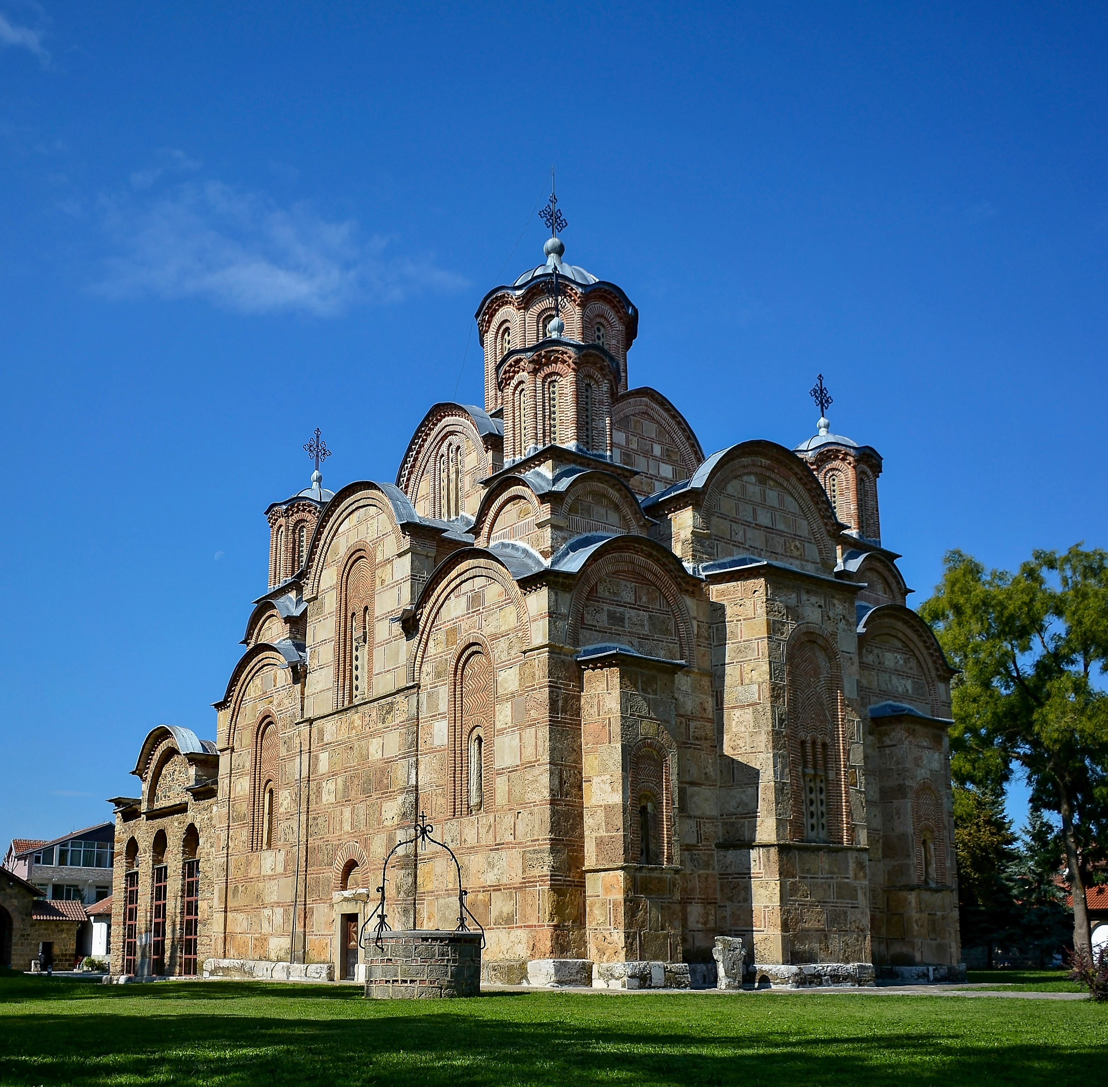 Gracanica Monastery